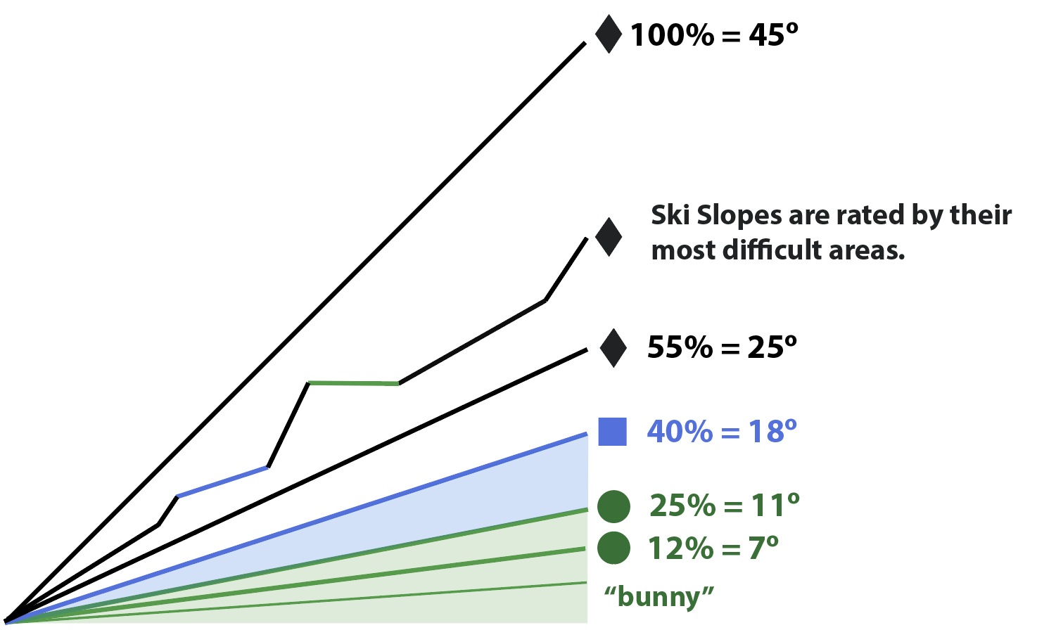 Ski trails are measured by percent slope, not degree angle. A 100% slope is a 45 degree angle. In general, beginner slopes (green circle) are between 6% and 25%. Intermediate slopes (blue square) are between 25% and 40%. Difficult slopes (black diamond) are 40% and up. However, this is just a general "rule of thumb." A trail will be rated by its most difficult part, even if the rest of the trail is easy. In addition, there are many factors which contribute to difficulty rating, such as: width of the trail, sharpest turns, terrain roughness.